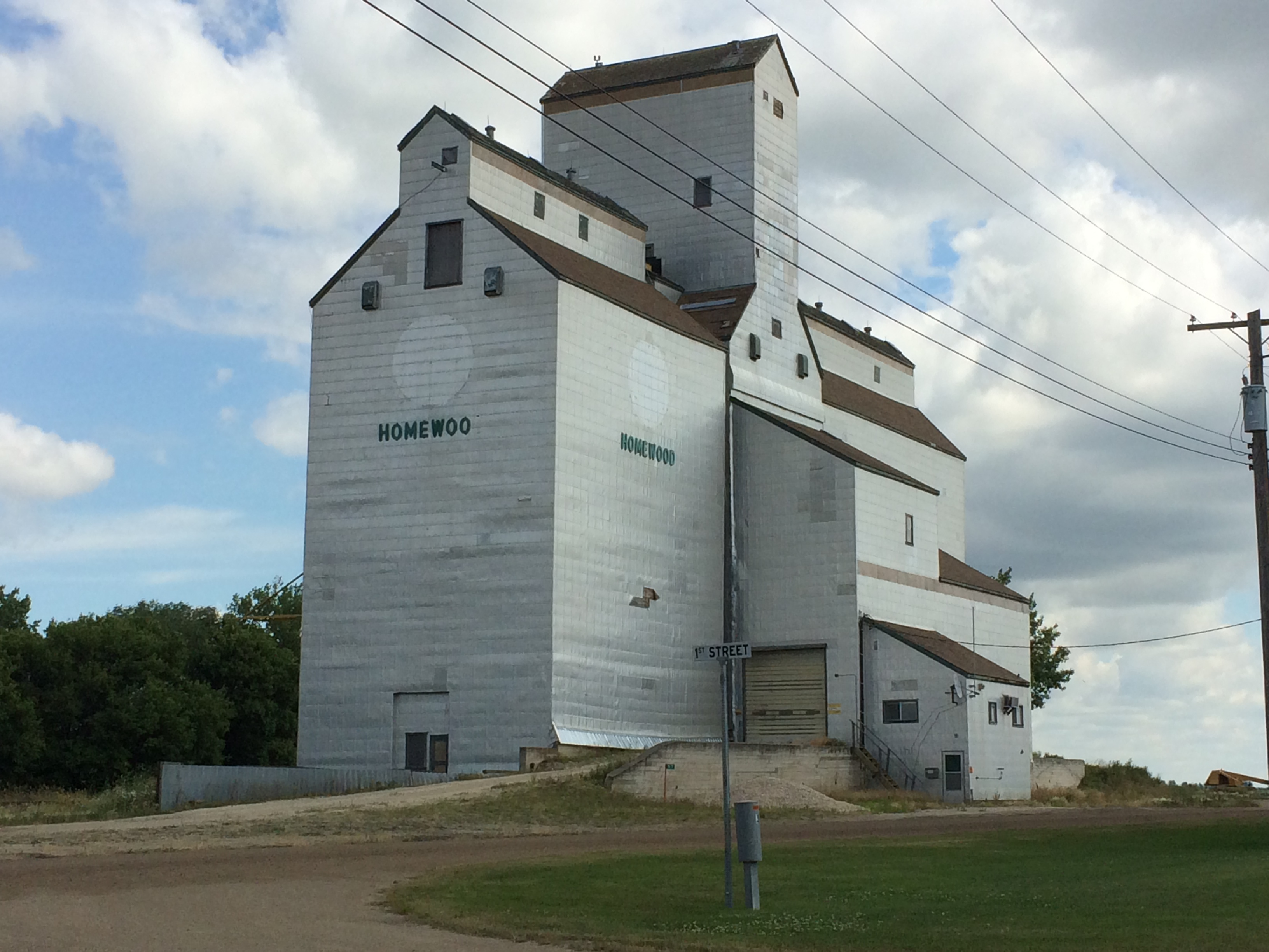 Former Manitoba Pool Grain Elevator at Homewood, Manitoba